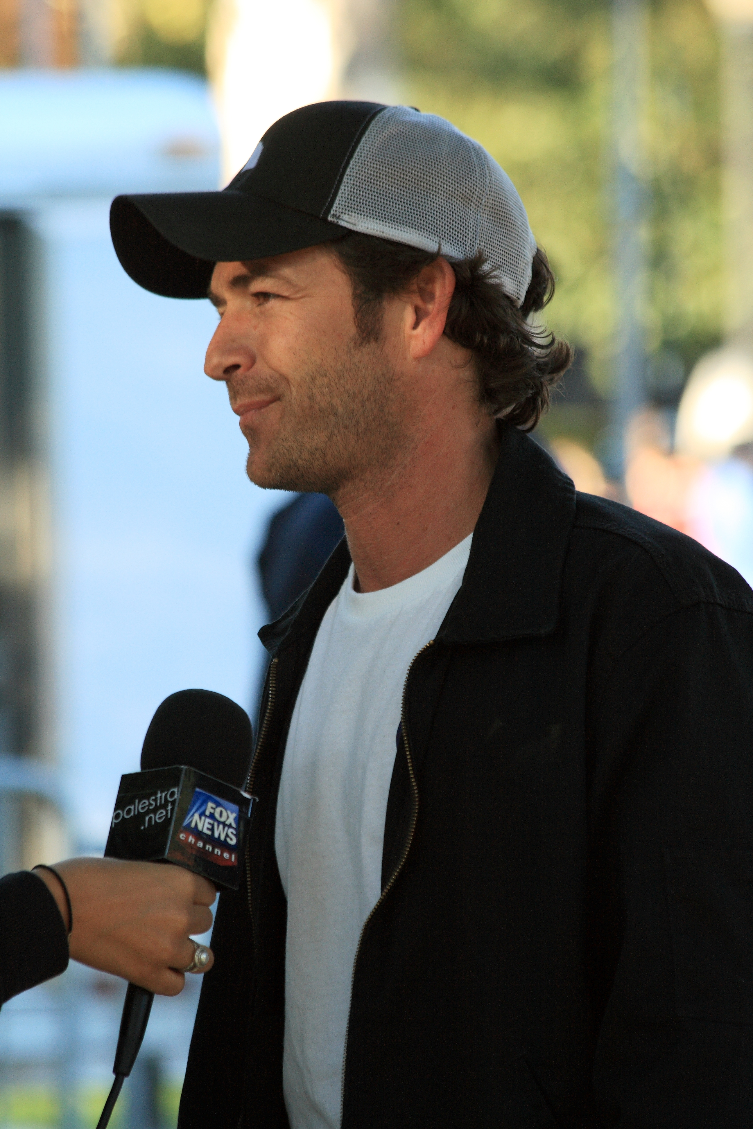 Luke Perry at the Vote for Change Rally Sunday, October 5th at Ohio State University